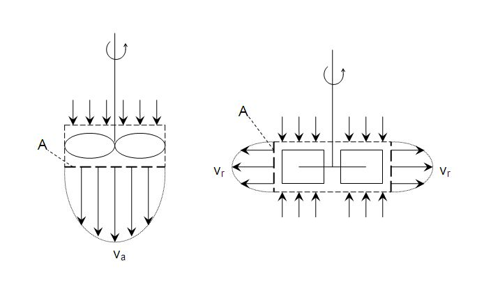 Mixing - volumetric flow rate.